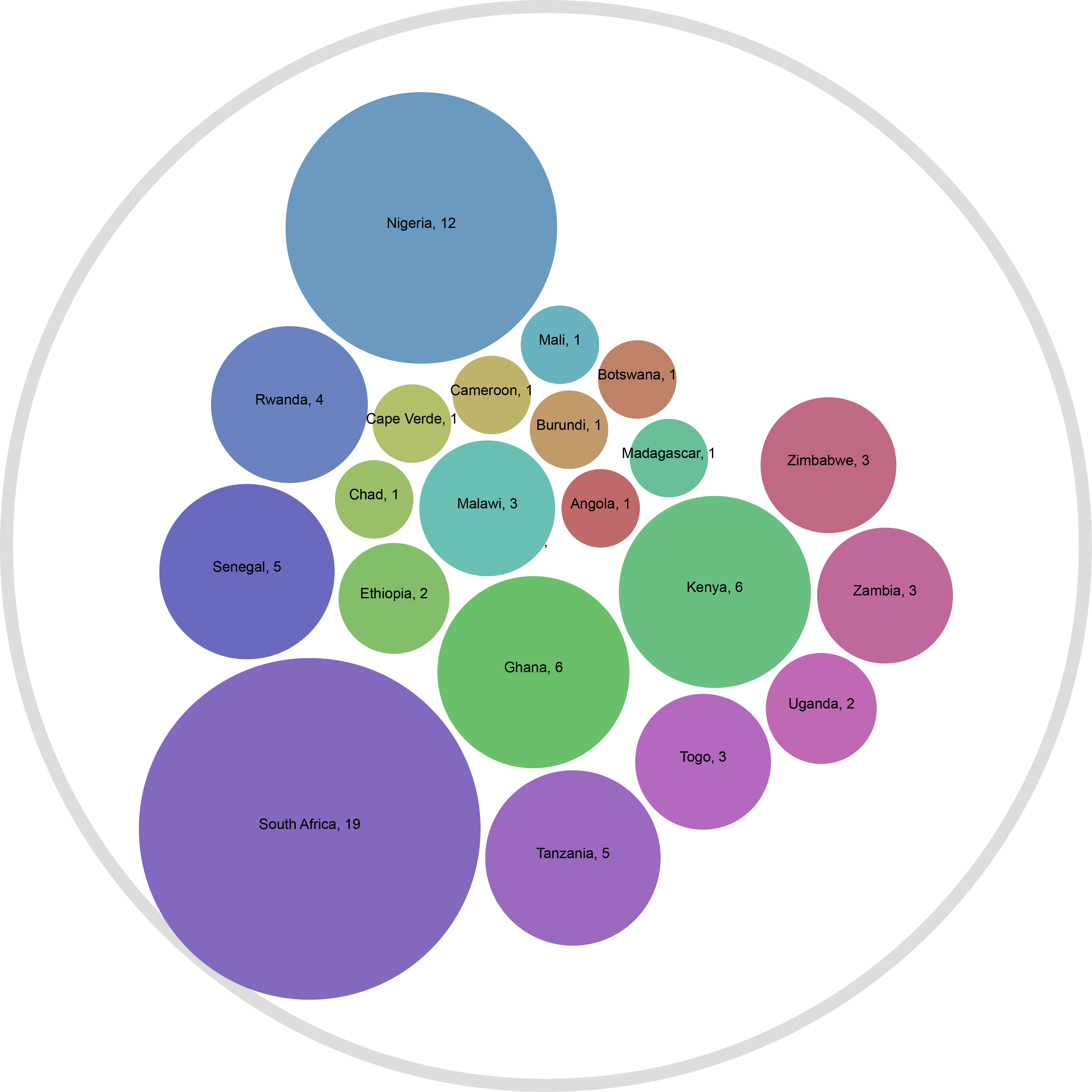 A Visualization of STEM Programs in Africa